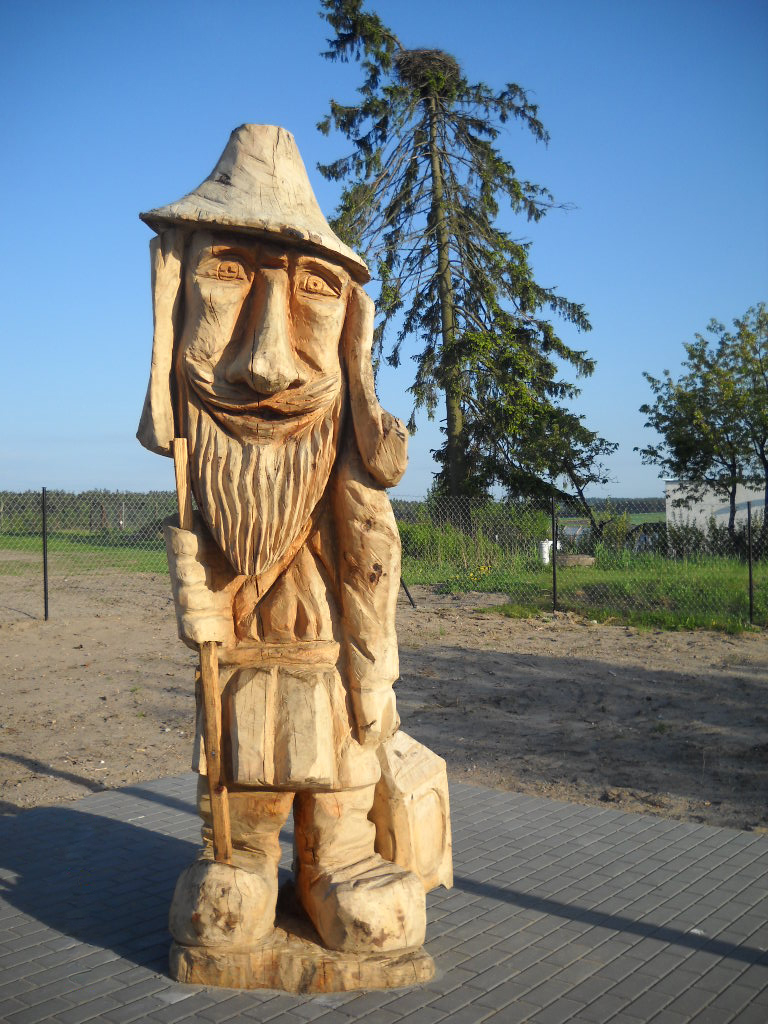 Statue of Kashubian mytical personage Szëmich located on the „Poczuj Kaszubskiego Ducha” tourist route (Pobłocie, Poland).